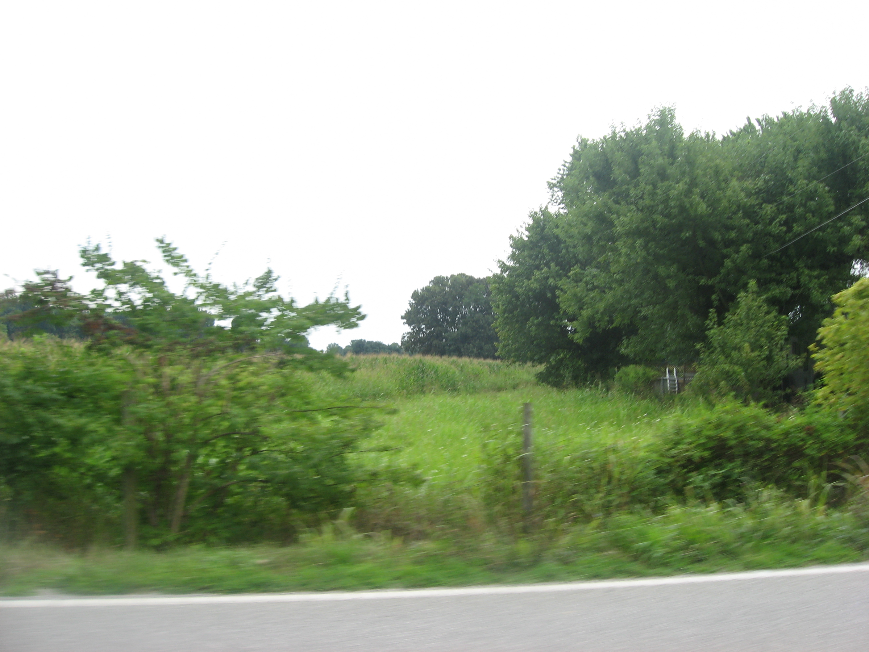 Distant view from the east of the Aberdeen Mound (seemingly the small rise in the field in the distance), located west of State Route 41 north of Aberdeen in Huntington Township, Brown County, Ohio, United States. Built by people of the Adena culture, it is an important archaeological site and is listed on the National Register of Historic Places.